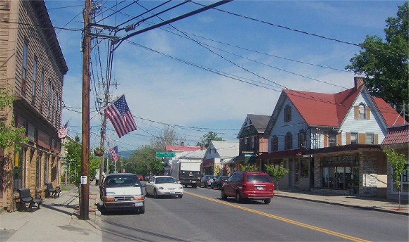 Pine Bush, NY, photographed by Daniel Case on morning of June 8, 2005